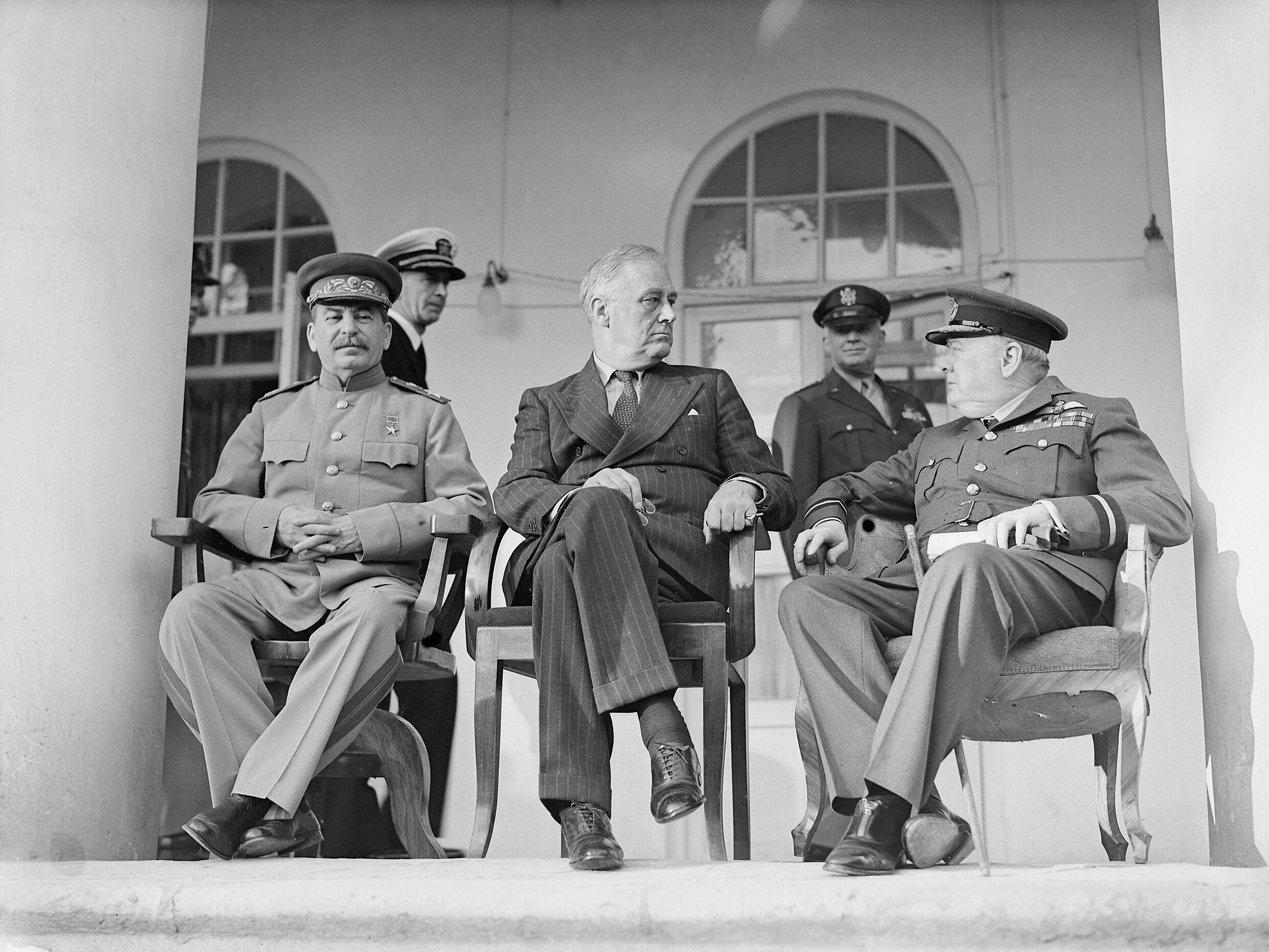 Joseph Stalin, Franklin D Roosevelt and Winston Churchill on the veranda of the Soviet Legation in Teheran, during the first 'Big Three' Conference, November 1943. Joseph Stalin, Franklin D Roosevelt and Winston Churchill sit on chairs on the veranda of the Soviet Legation in Teheran. In the background are aides to the US President.